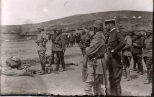 Battle of Sarıkamış Enver Pasha and German advisor Otto von Feldmann inspecting the Army.